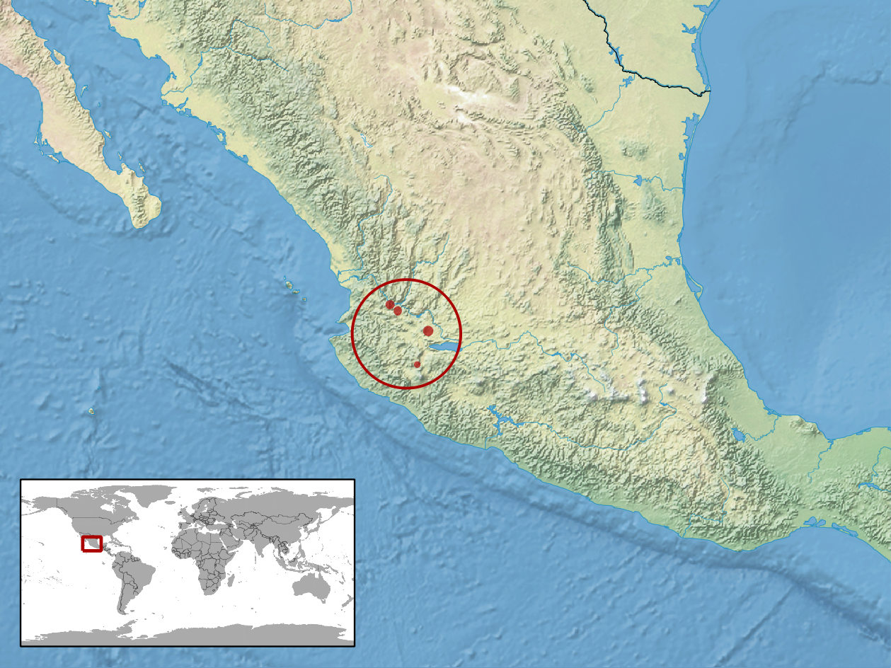 geographic distribution of Adelophis copei (Native: Mexico)